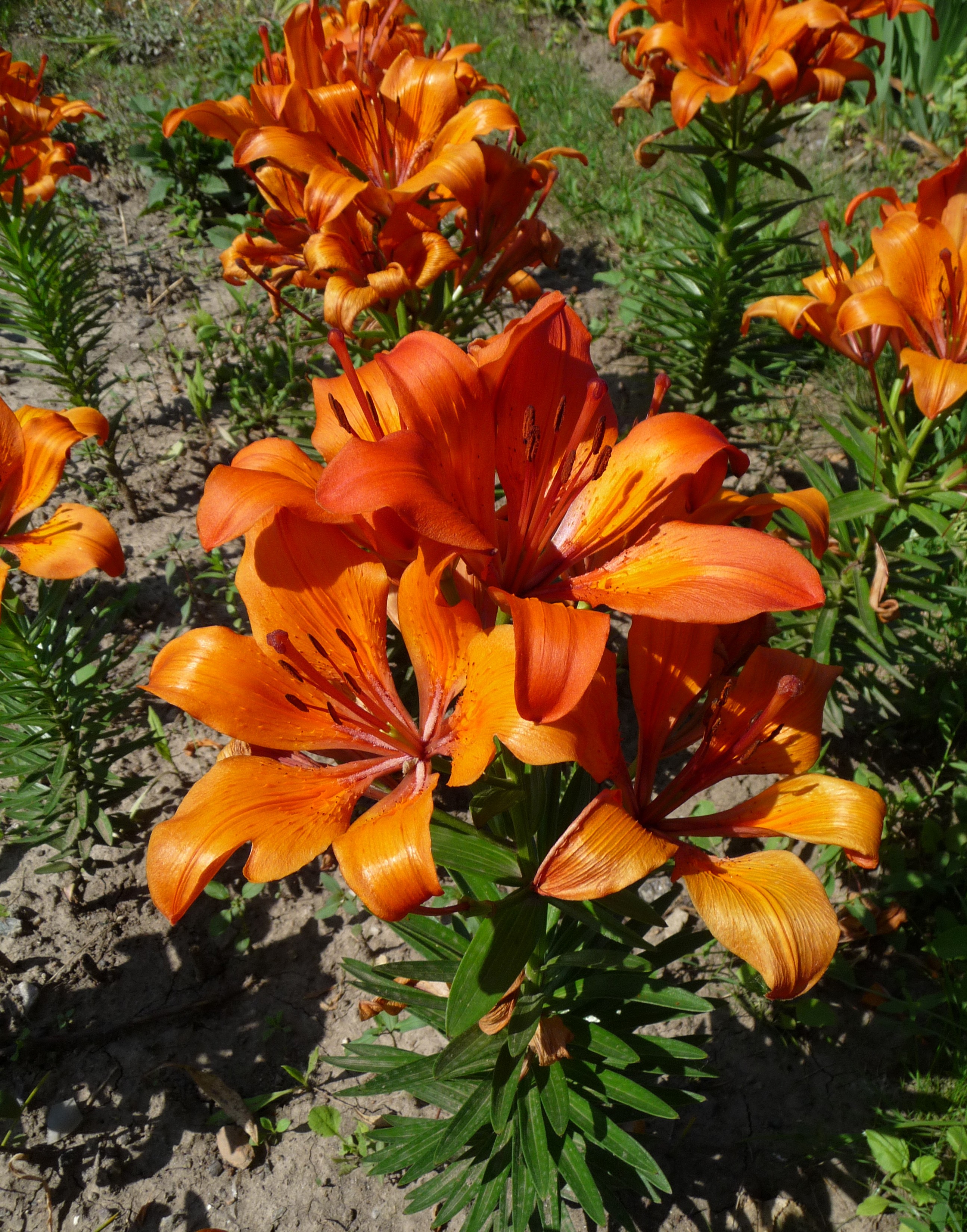 Fire lily Lilium bulbiferum, cultivar. Ukraine.